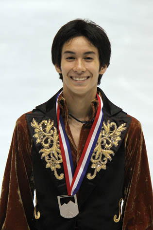 Kento Nakamura (Jap) on the podium (2nd) at the 2009-2010 Junior Grand Prix Lake Placid